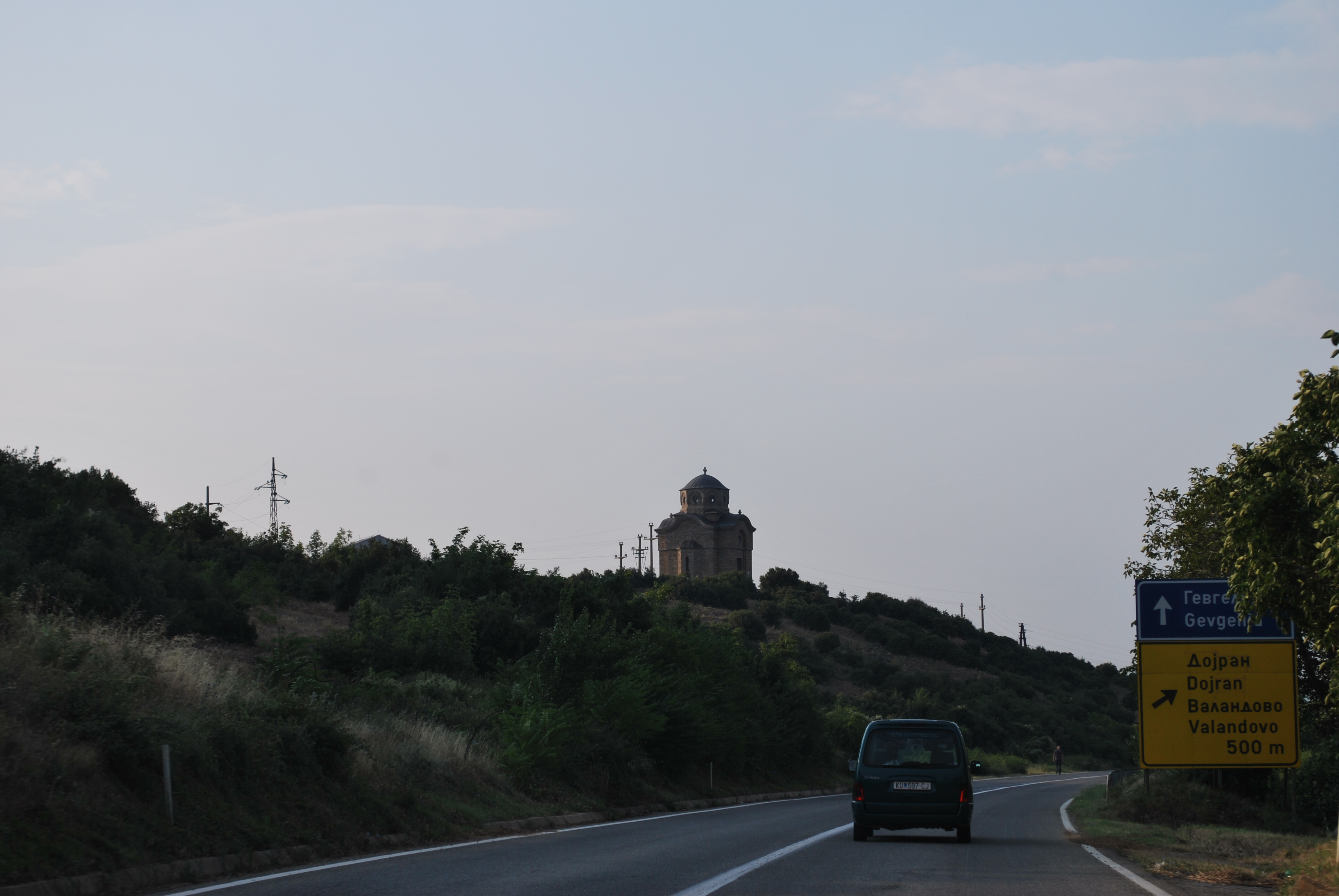 Udovo Memorial, Macedonia